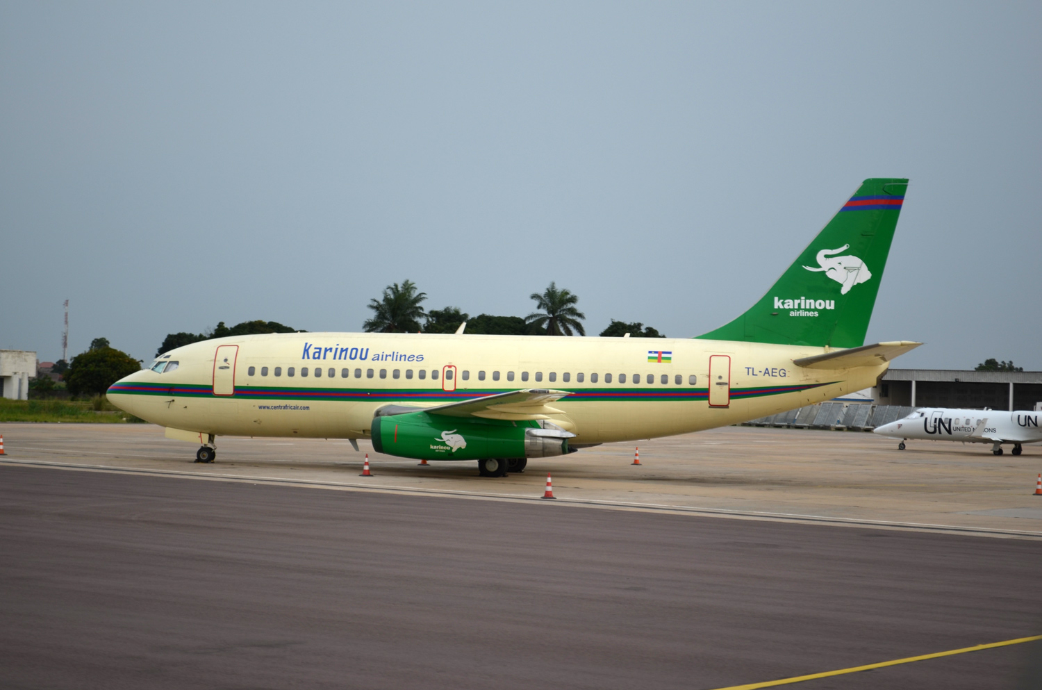 Karinou Airlines Boeing 737-200 at Brazzaville Airport.